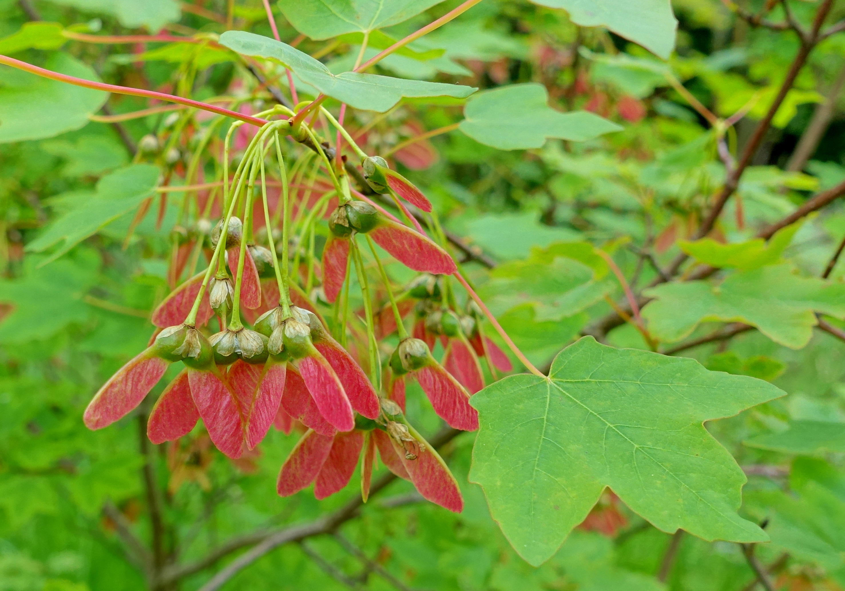 Horticultural specimen in Sir Harold Hillier Gardens - Romsey, Hampshire, England.